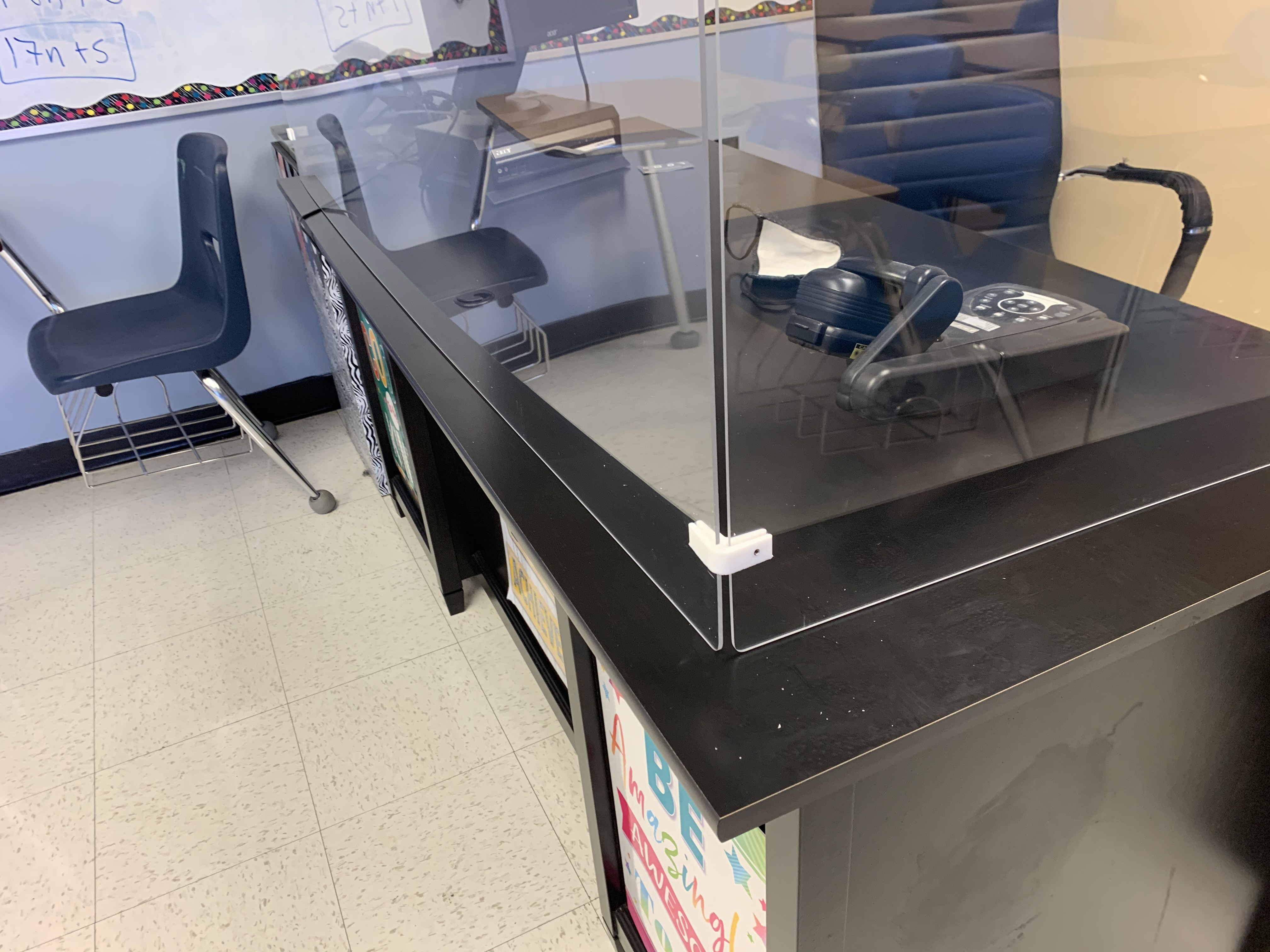 Sneeze Guard on Teachers Desk